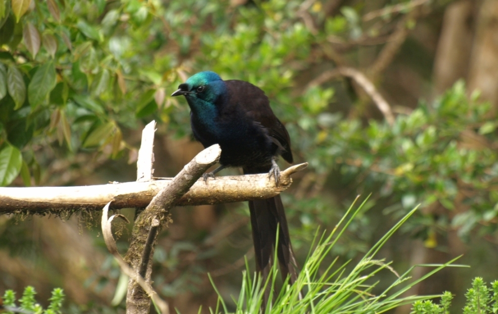 Juvenile male Ribbon-tailed Astrapia (Astrapia mayeri), yet to develop his white tail plumage